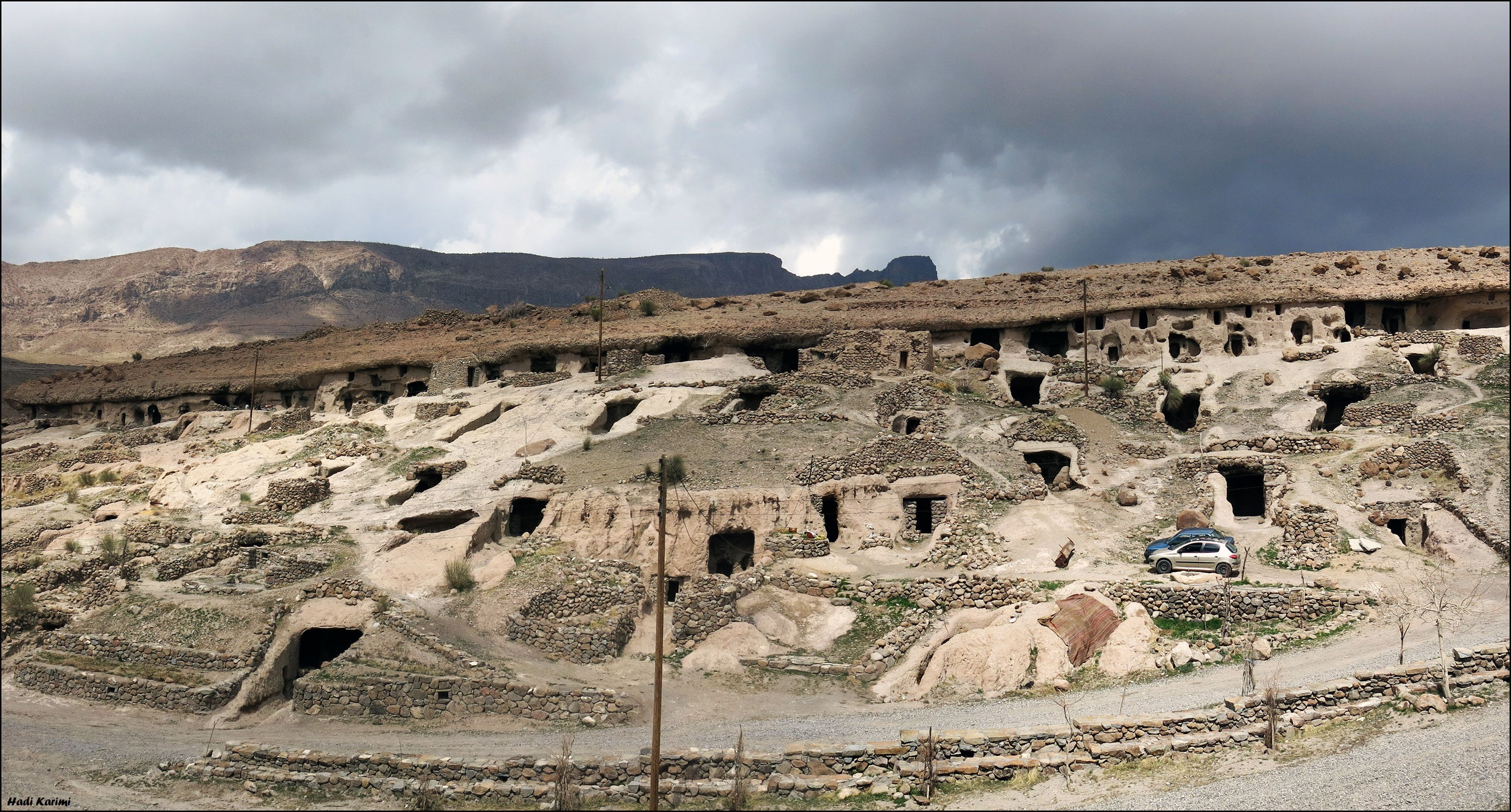 Meymand ancient village روستای صخره‌ای میمند